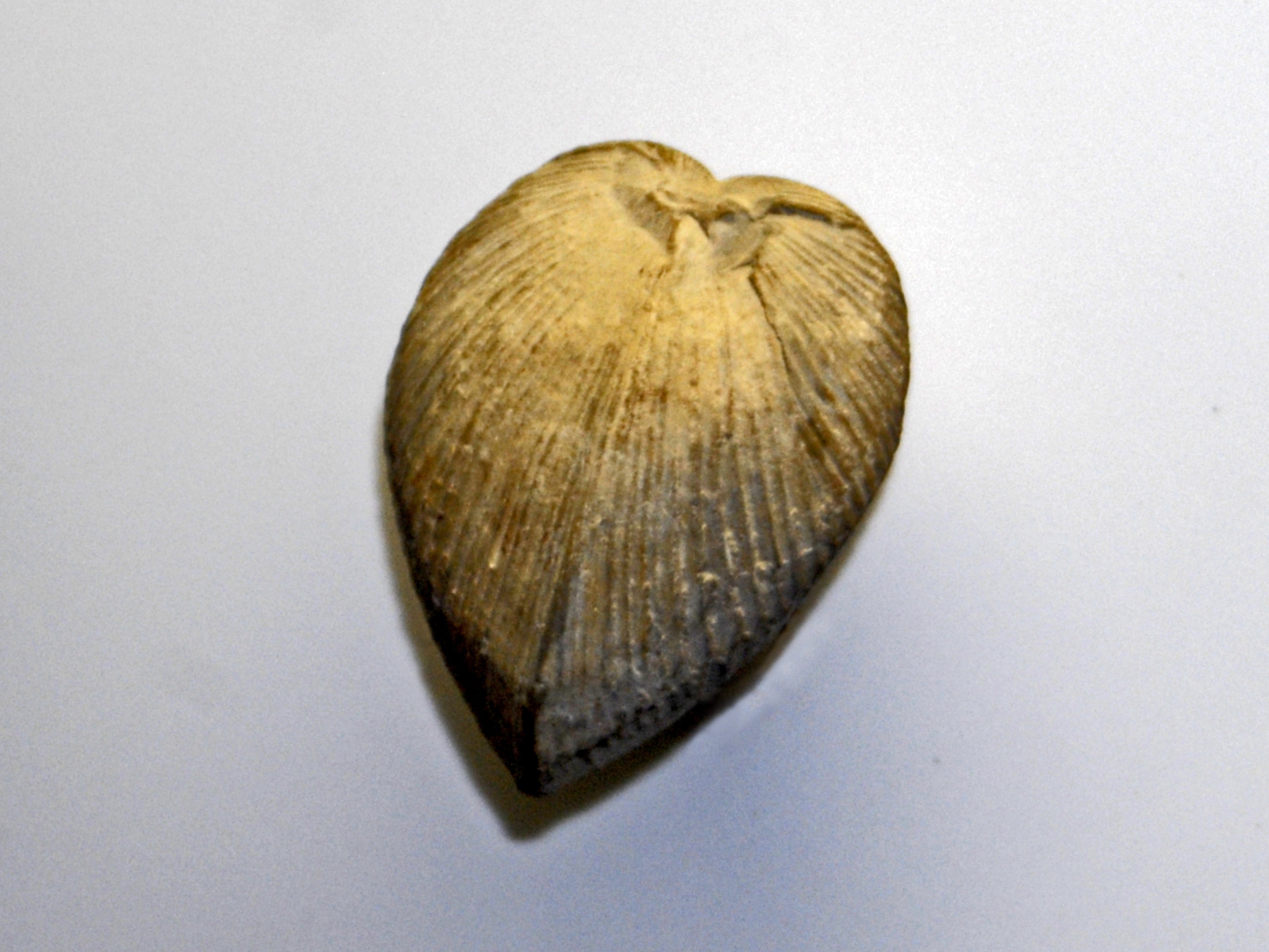 Fossil specimen of Pholadomya scutata species from Jurassic. On display at Museo di Scienze Naturali Enrico Caffi, Bergamo